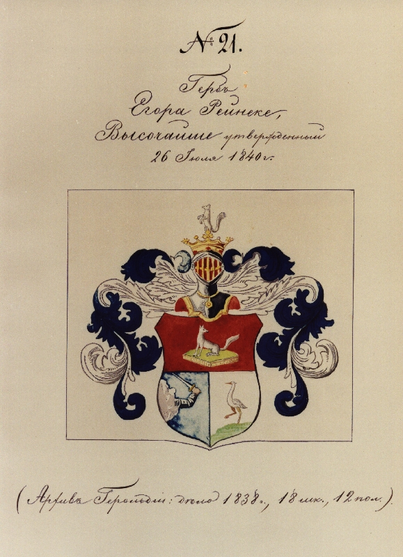 The arms of noble family sorts of Reineke